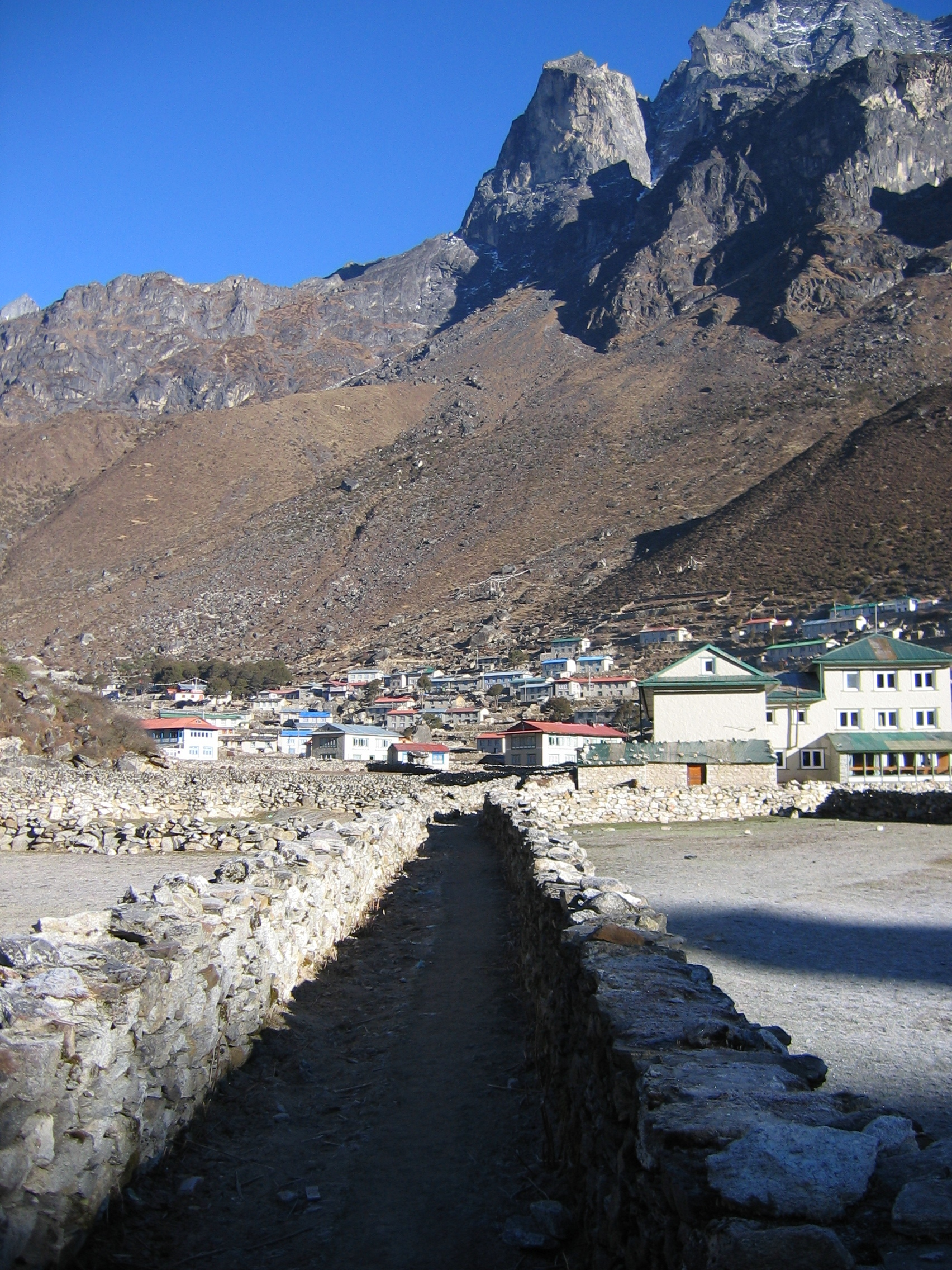 Khumjung village, Khumbu, Nepal